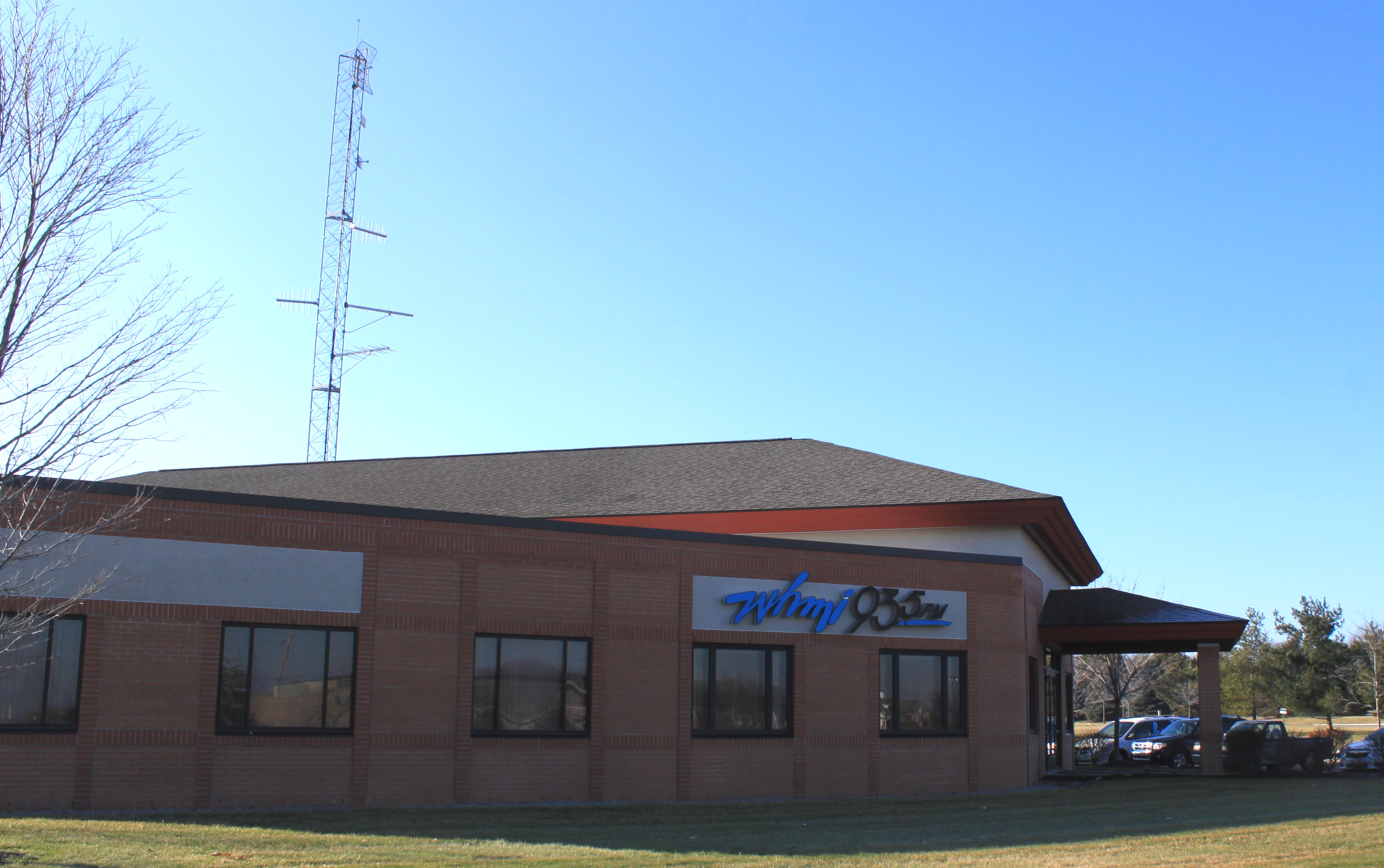 WHMI-FM studios & offices, 1277 Parkway Drive, Genoa Township (Howell), Michigan.